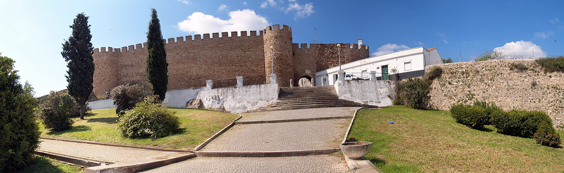 Panoramic view of Estremoz Castle